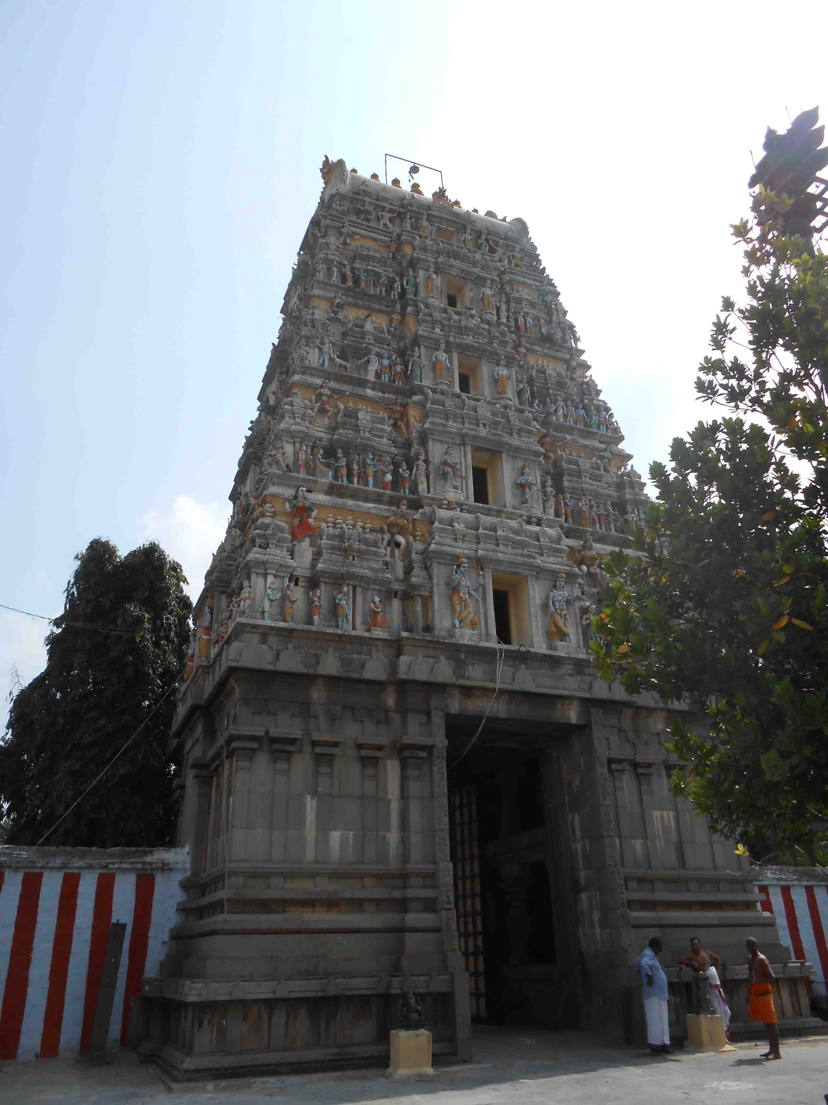 భావన్నారాయణ స్వామి దేవాలయం